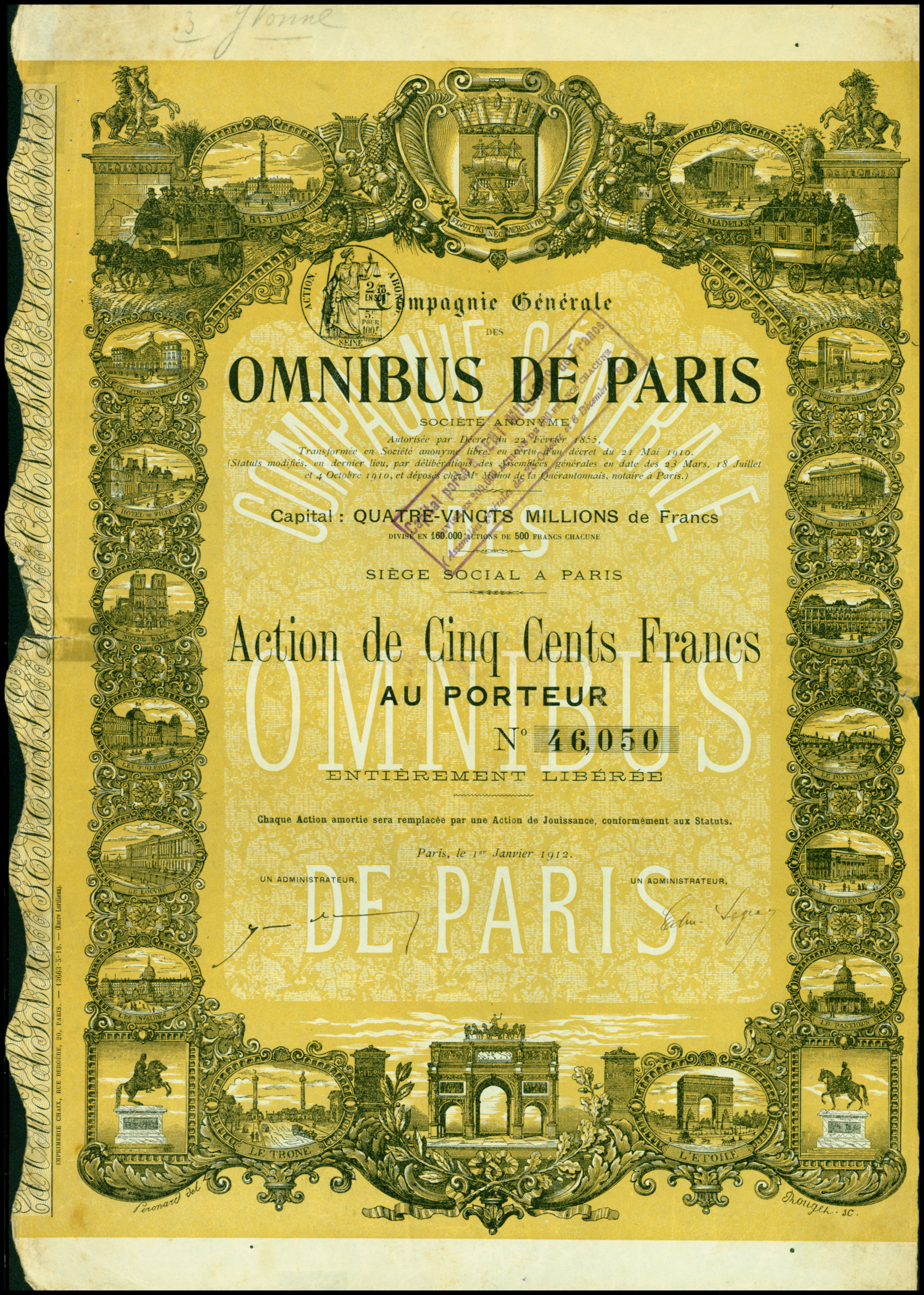 Share of the Compagnie Générale des Omnibus de Paris, issued 1. January 1912